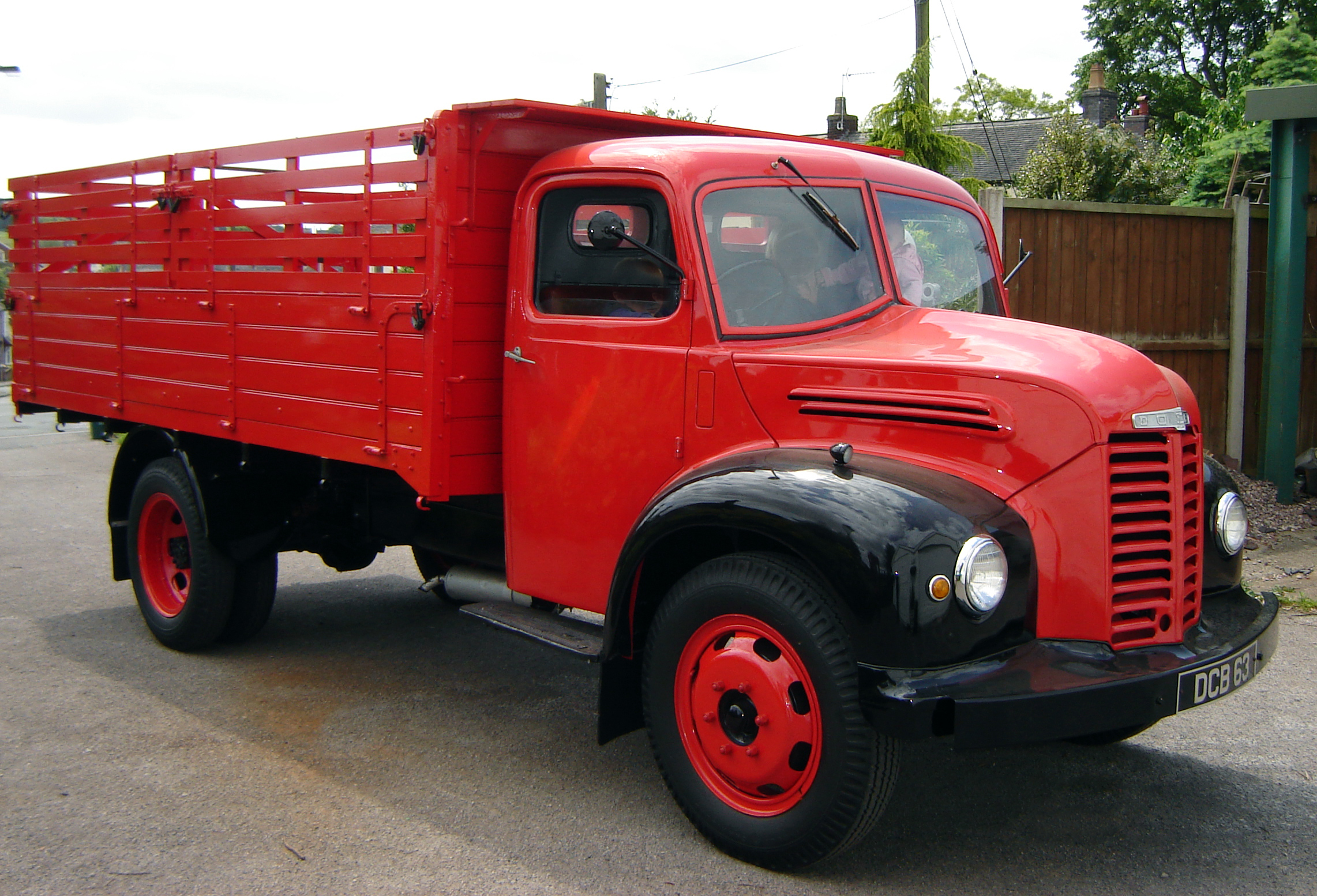 1952 Dodge "Kew" 100-series truck, also known as the "Parrot-Nose". The body, by Briggs, was also used by Ford for their ET6 and by Leyland for their Comet. 3.8 litre petrol engine.